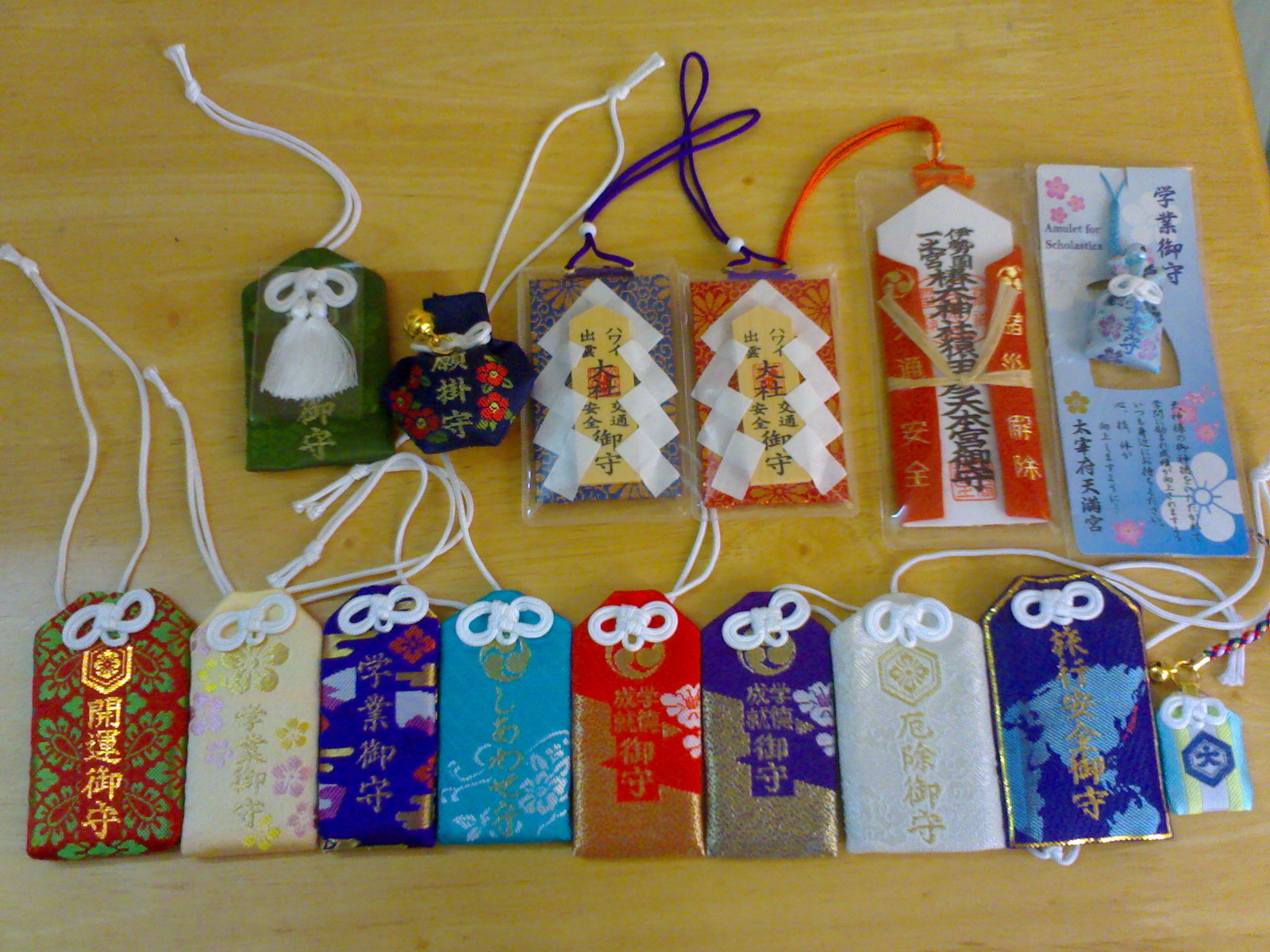 Various omamori from different shrine in America, Japan